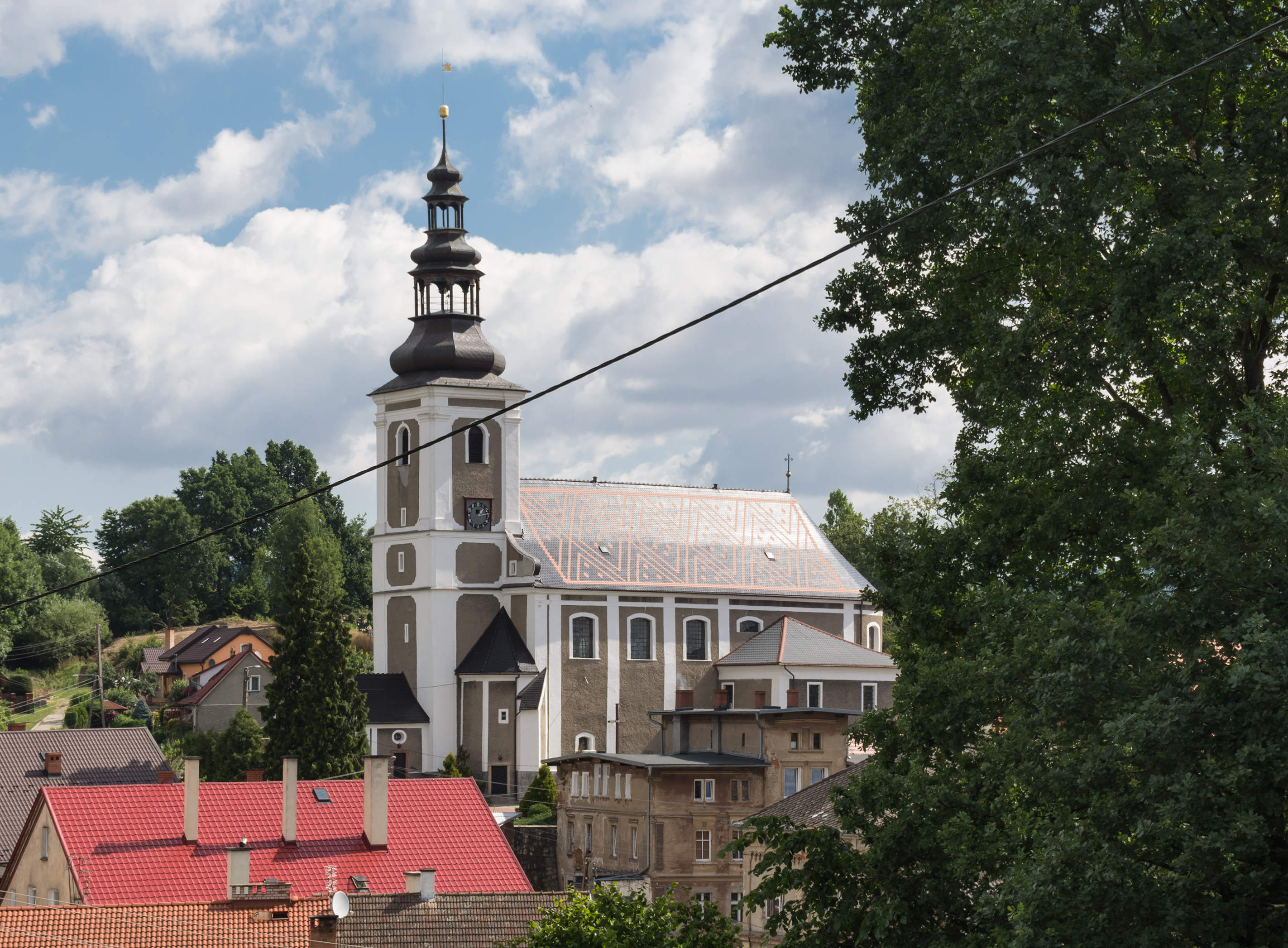 Saint George church in Wojbórz